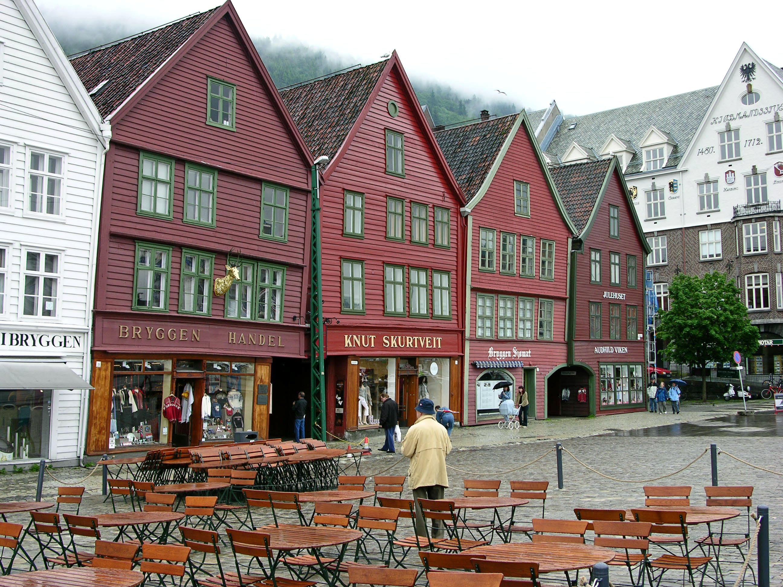 Front of buildings in the Hansa quarter of Bergen in Norway (UNESCO : World Heritage Site).